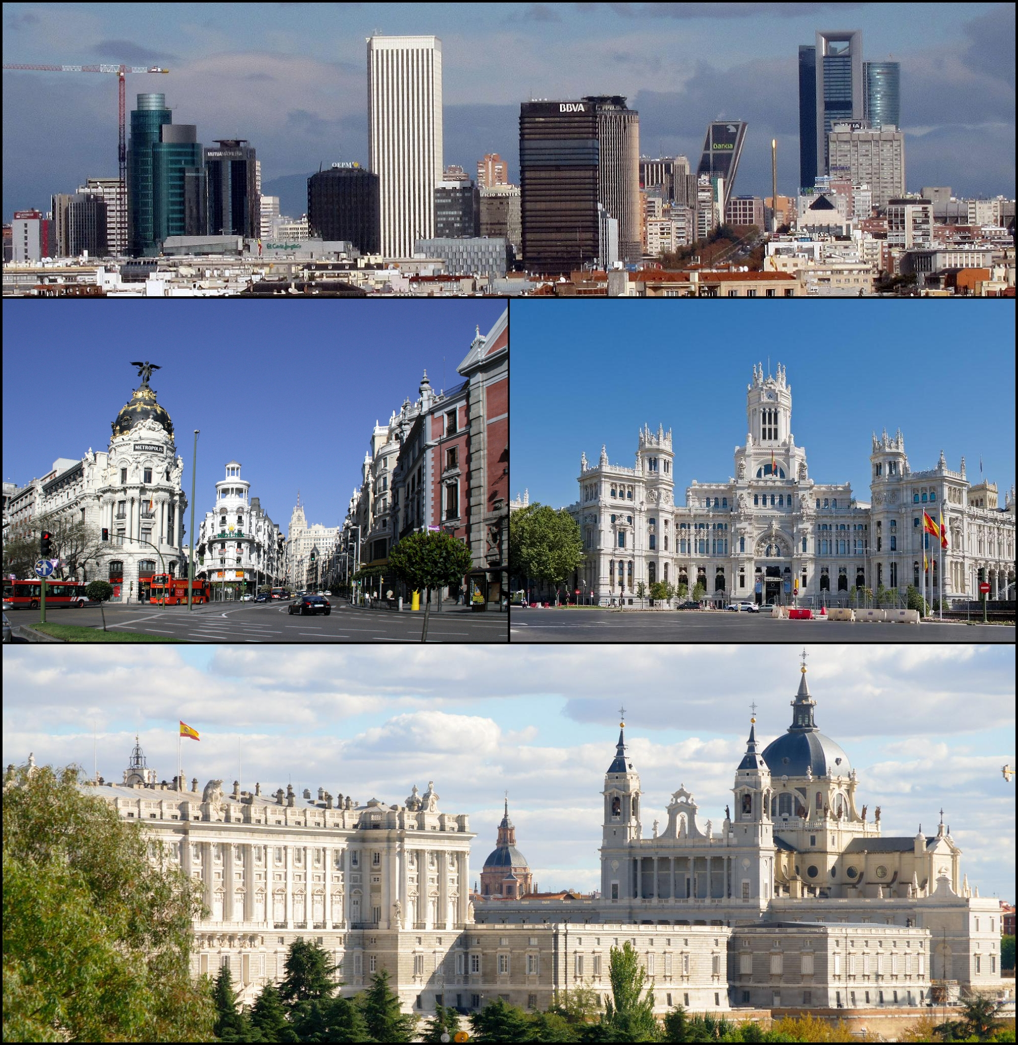 Collage of Madrid: central business districts - AZCA and CTBA, Calle de Alcalá street with Metropolis Building, Palace of Communication, Royal Palace and Almudena Cathedral